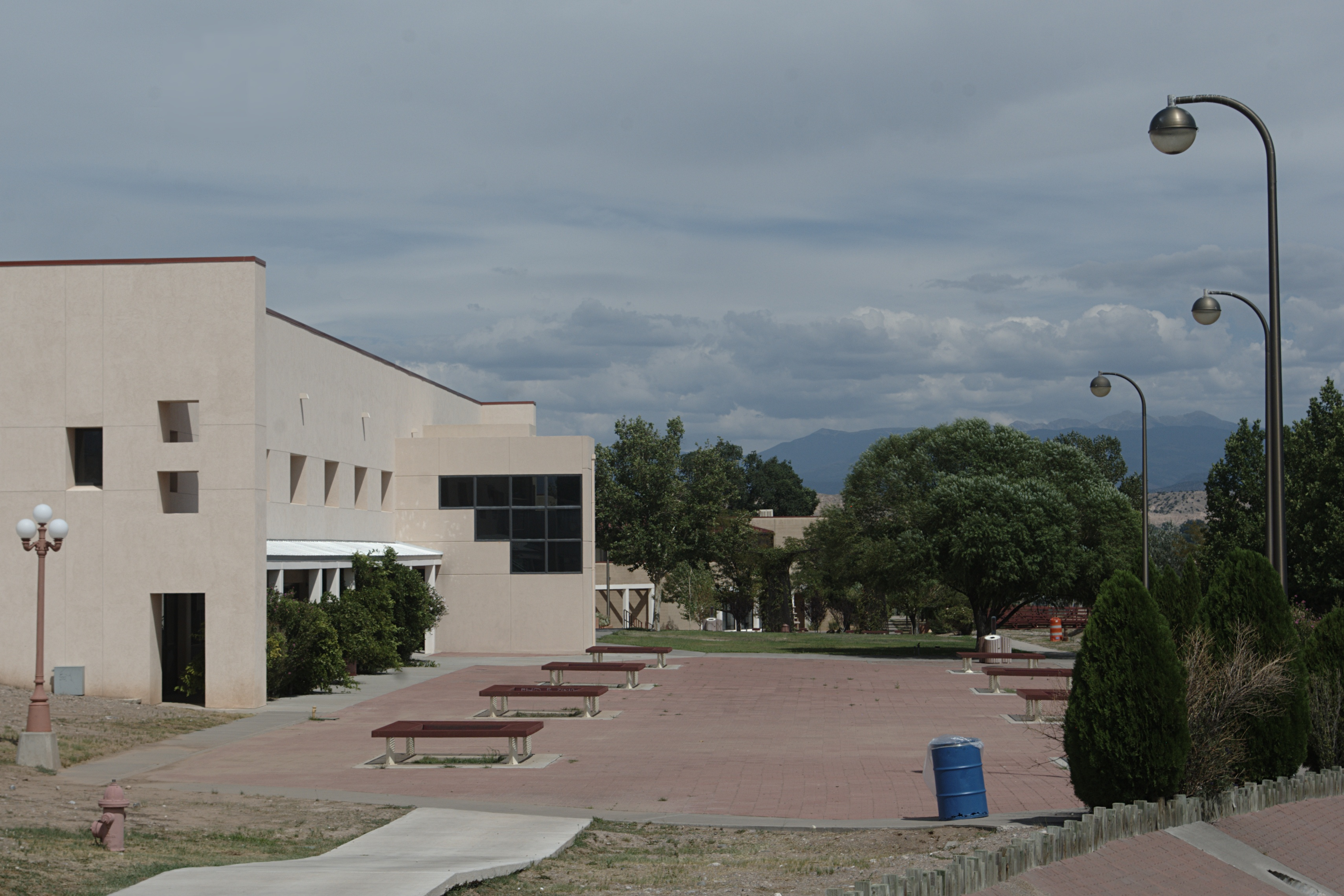 Northern New Mexico College, Española campus, showing the Administration Building on left with the General Education Building visible behind it and Truchas Peaks in the background.